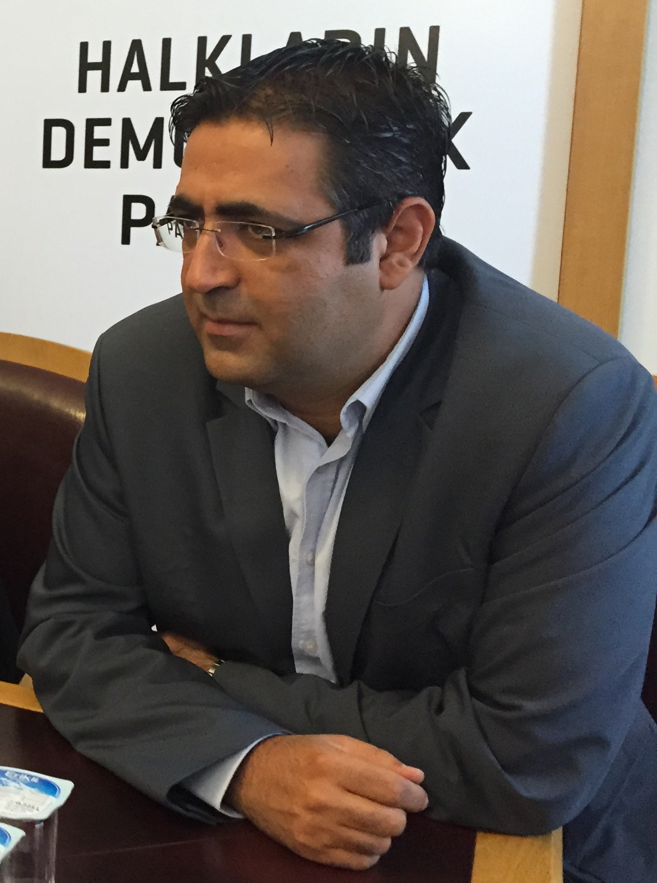 Pervin Buldan (l.), Sırrı Süreyya Önder, and İdris Balüken (r.) at HDP press conference in June 2015